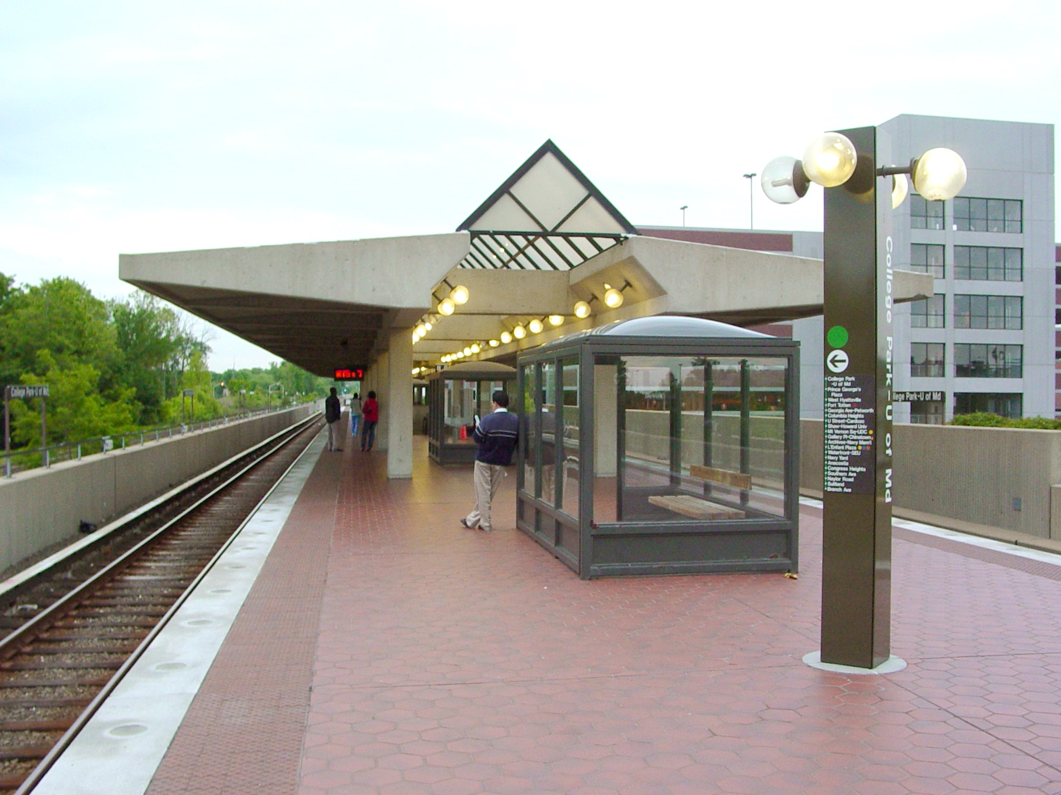 College Park-U of Md station on the Washington DC Metro system. Photo taken May 25, 2005 by Ben Schumin.